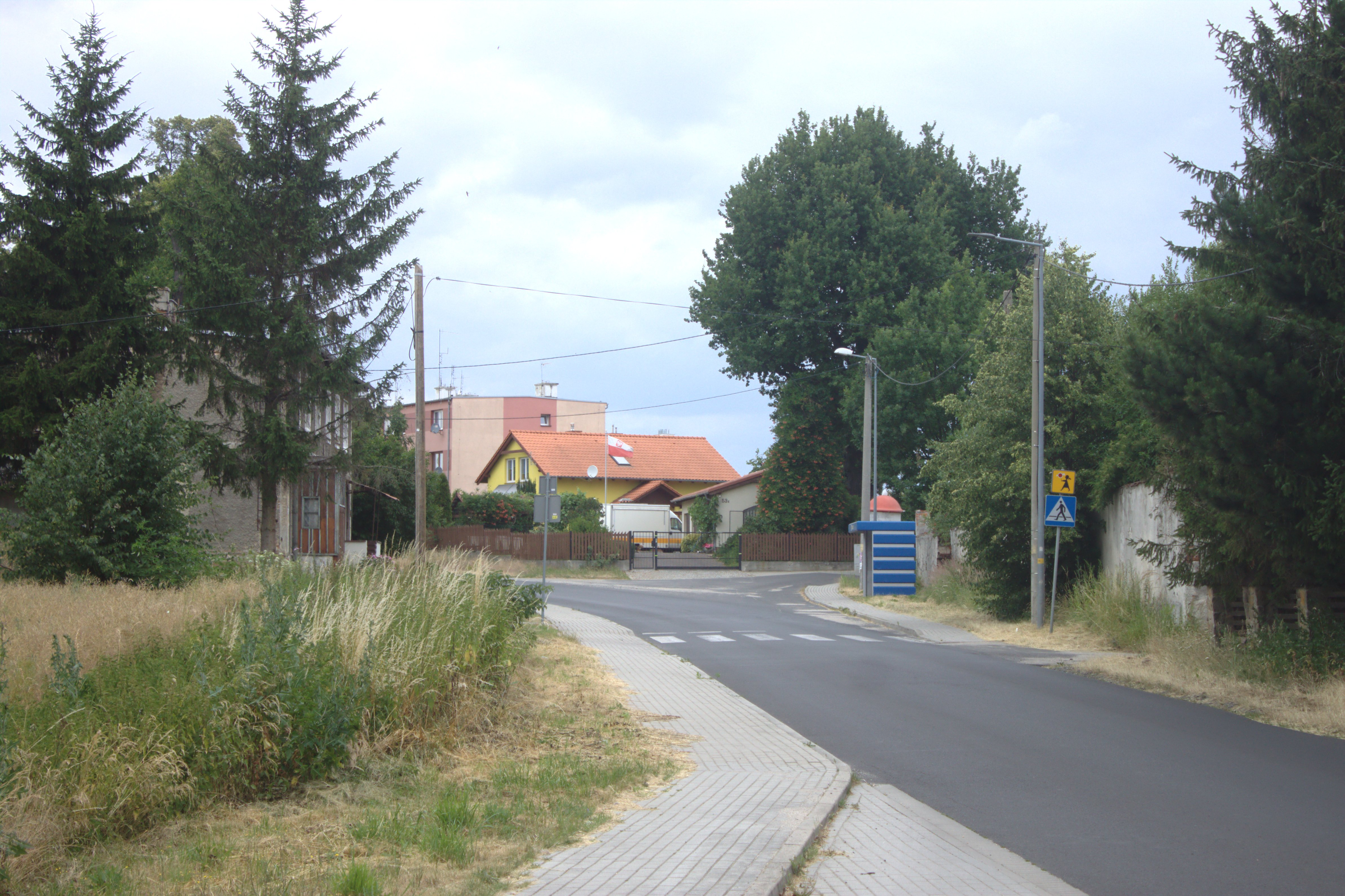 This photograph was created as a part of Wikiexpedition Lower Silesia, a project supported by Wikimedia Poland grant.